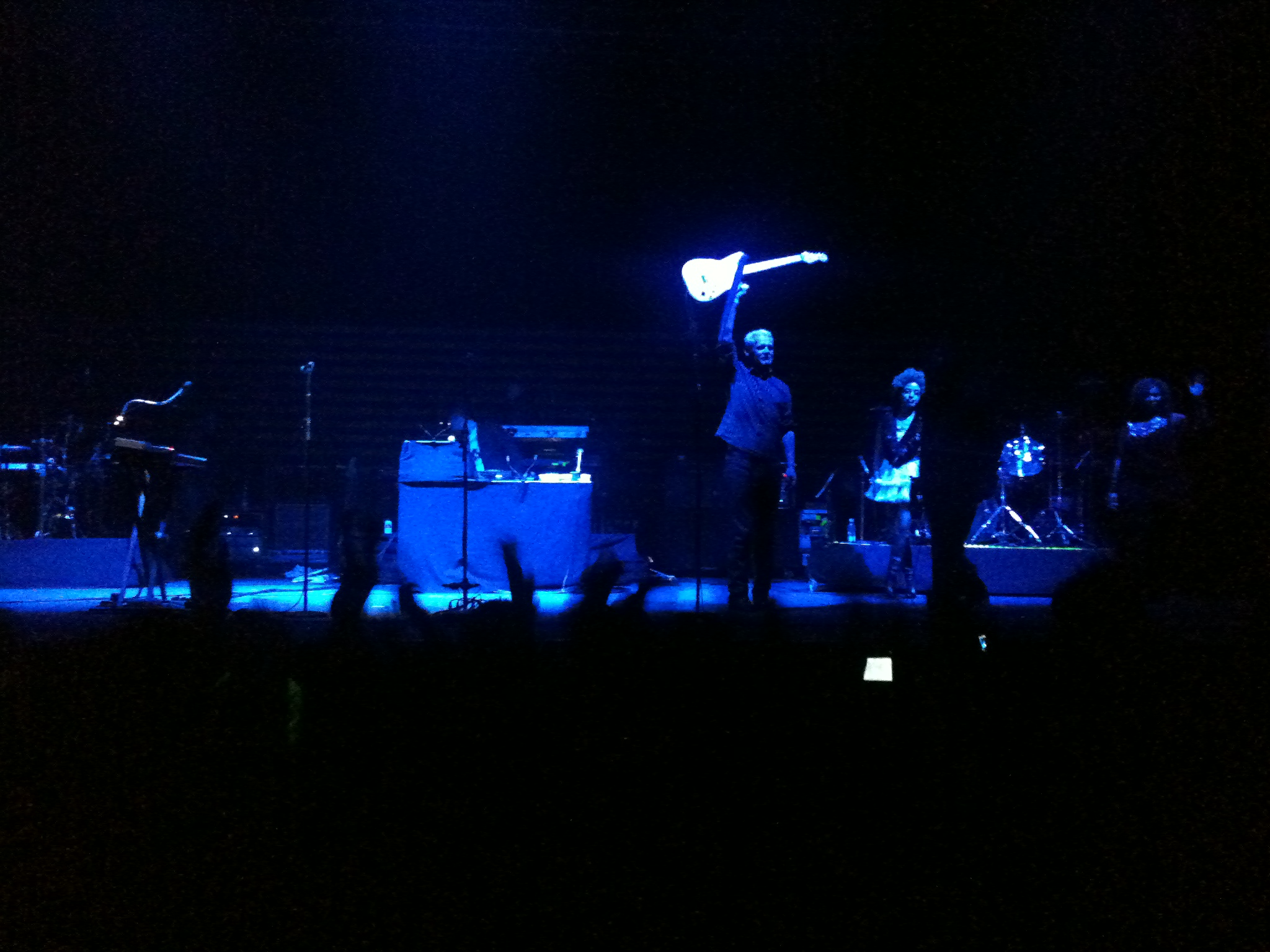 Angelo Bruschini performing in a Massive Attack concert